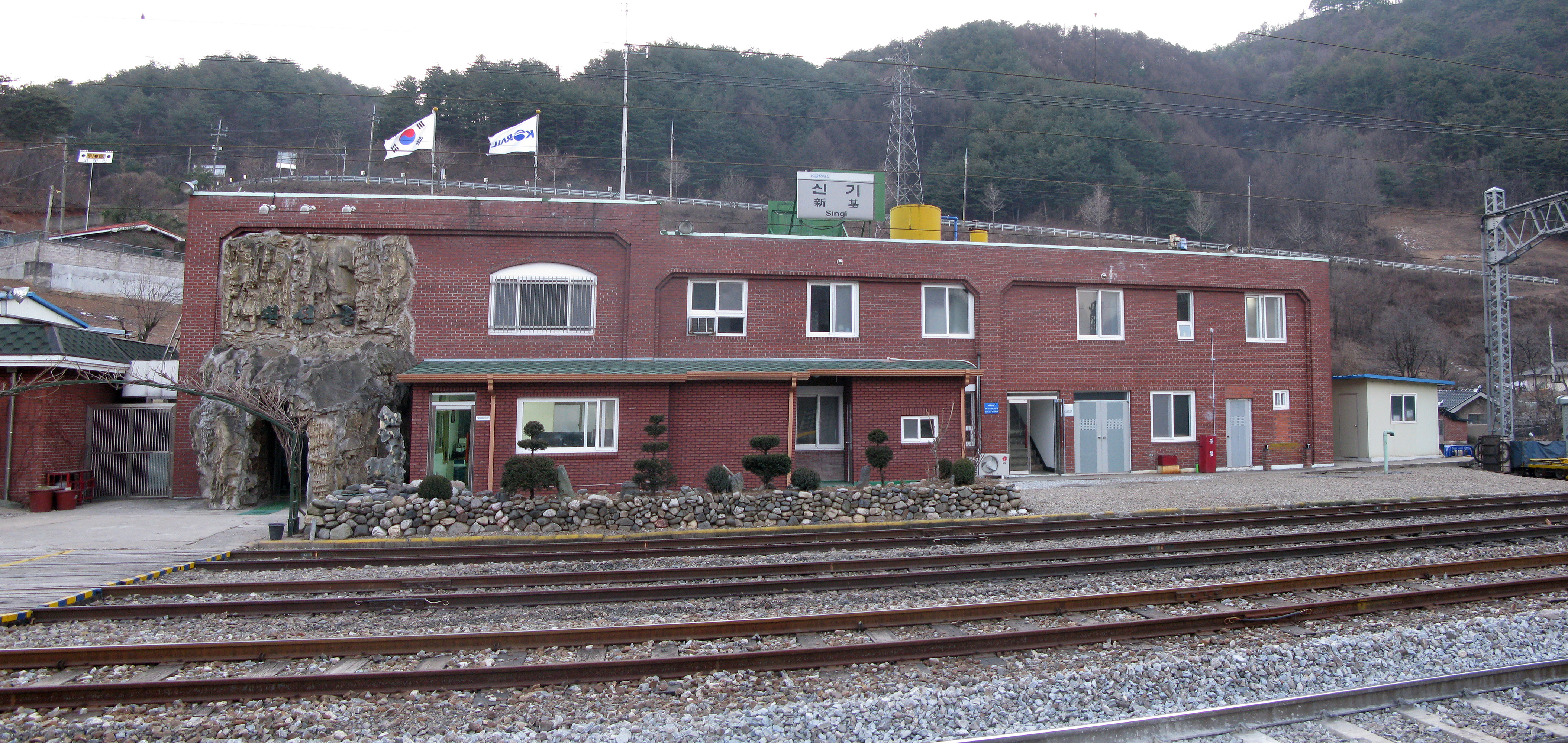 Yeongdong Line Singi Station